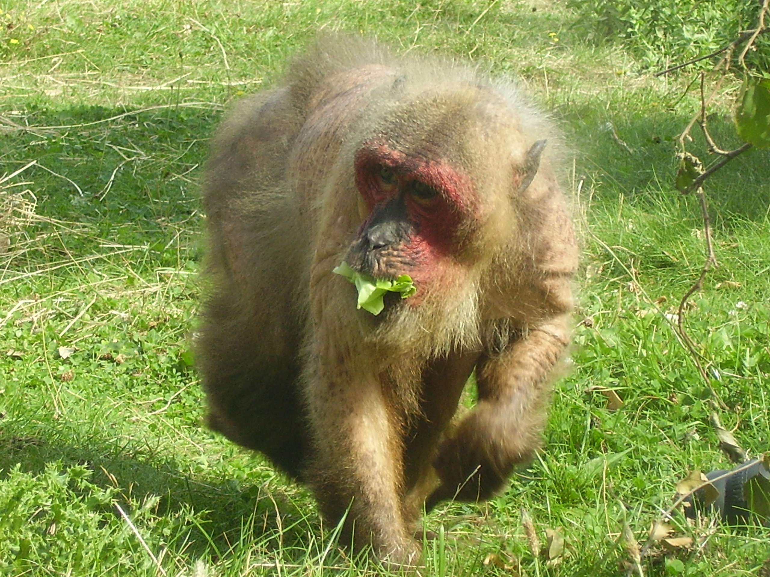 A stump-tailed macaque at Monkey World, Dorset, England. It is eating a luettice.